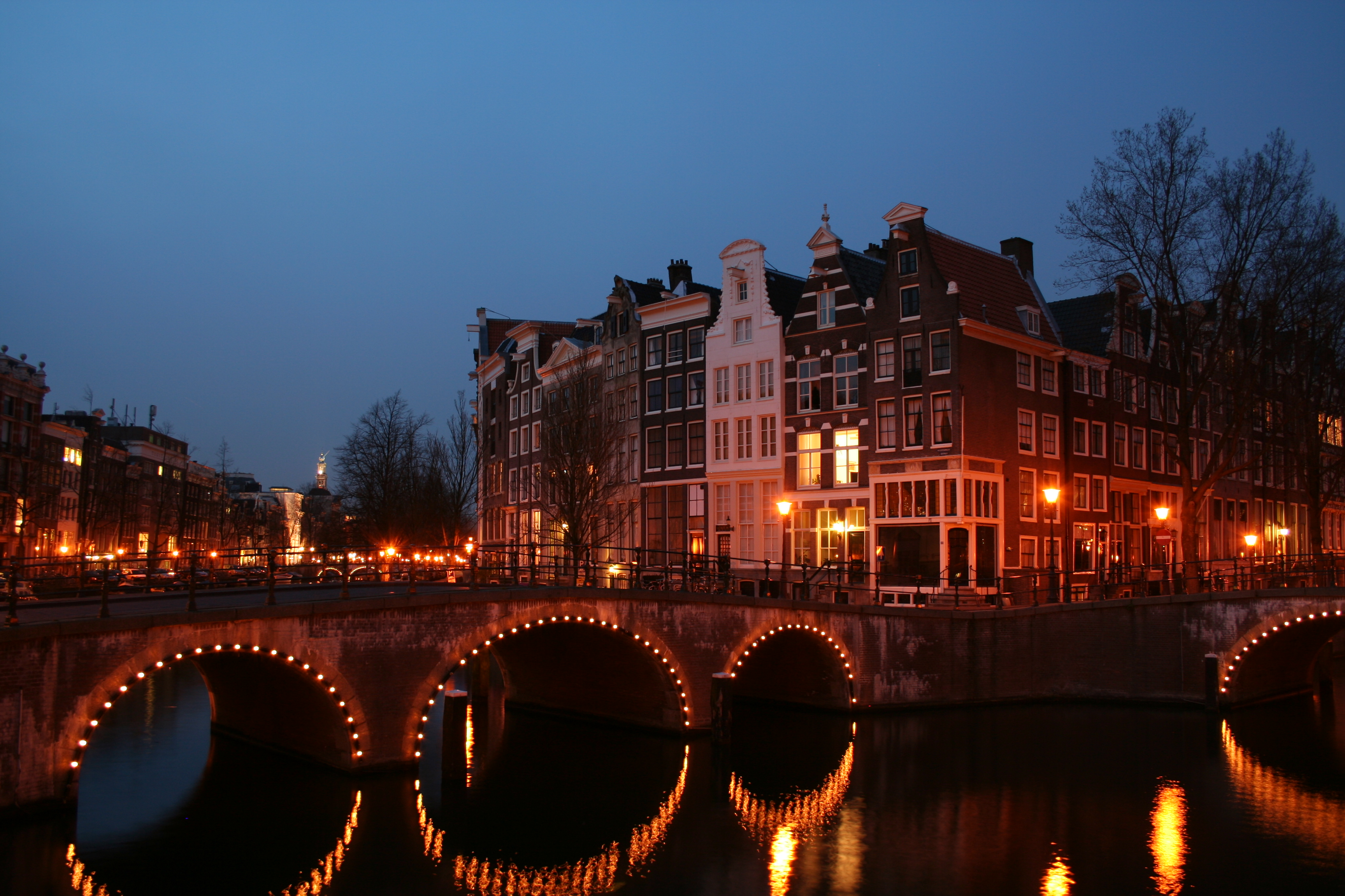 A photograph taken of the Keizersgracht in Amsterdam at night.